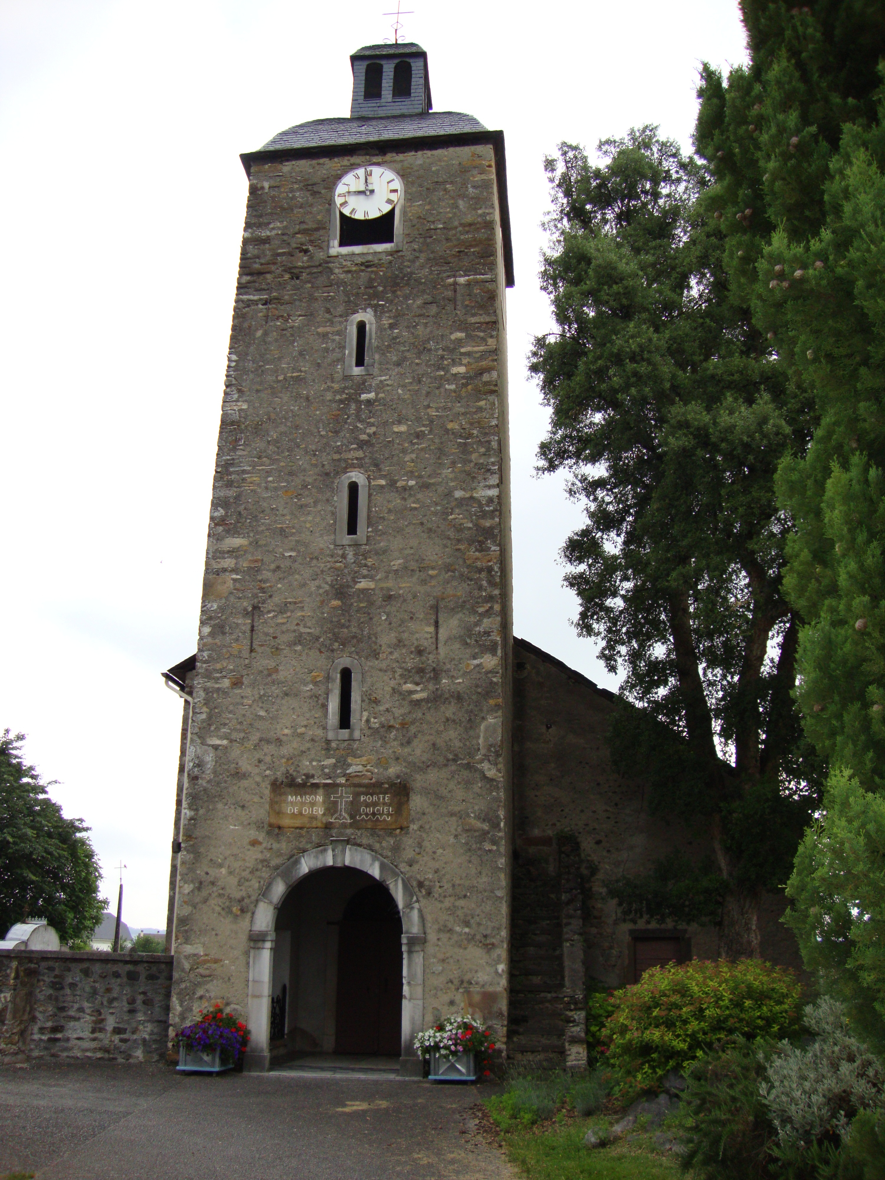 Saint-Goin (Pyr-Atl, Fr) church tower